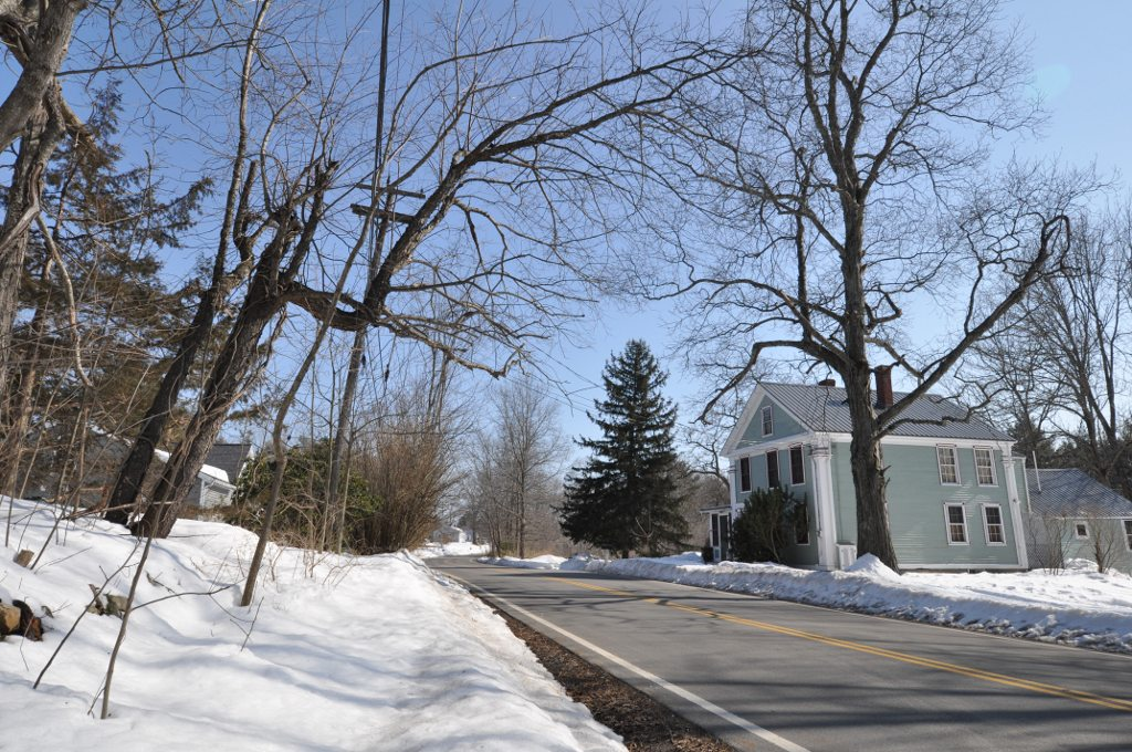 Route 107A in South Hampton, New Hampshire; part of the Smith's Corner Historic District.